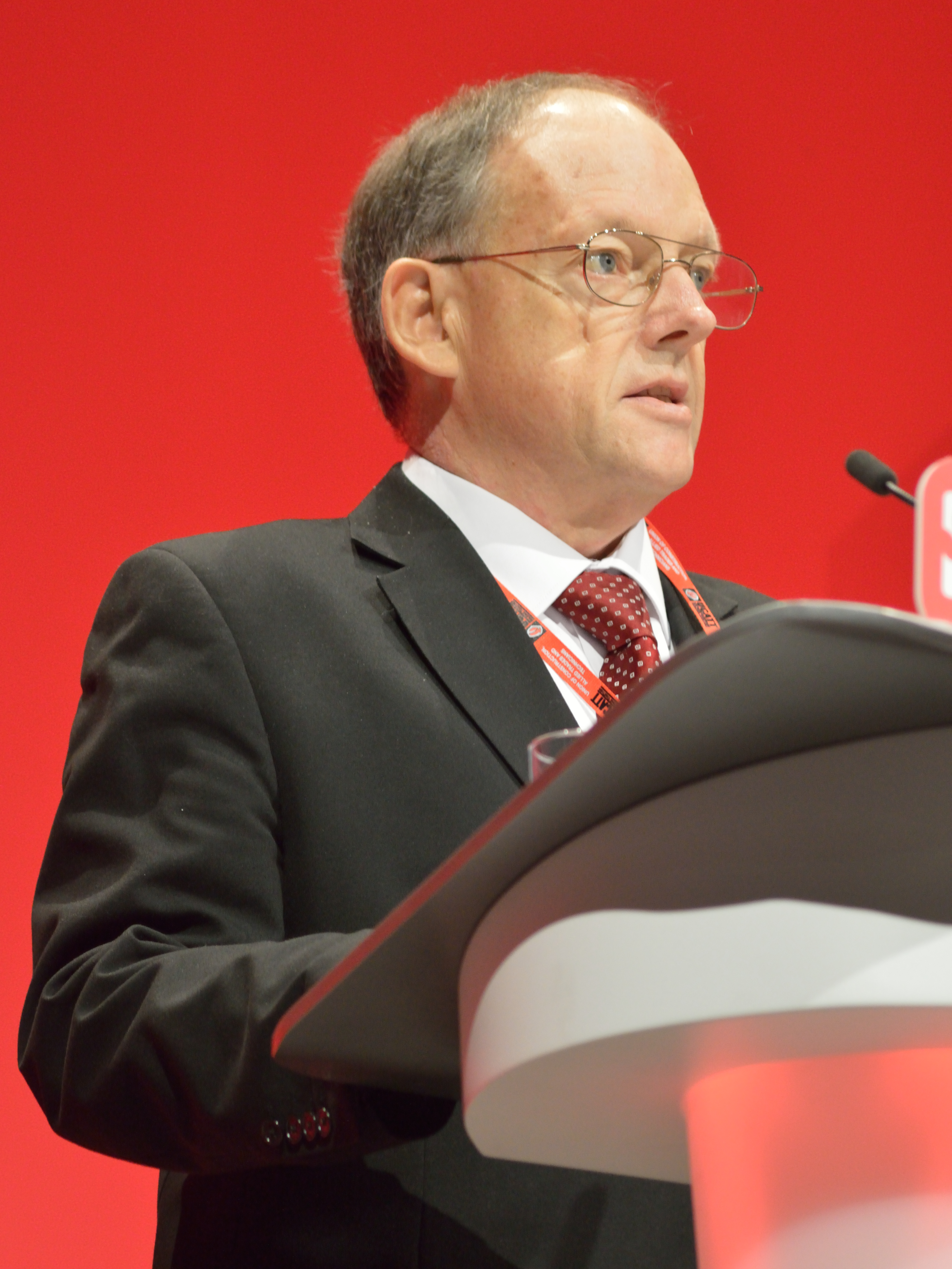 Brian Rye, acting general secretary of UCATT, speaking at the 2016 Labour Party Conference in Liverpool. As the union was intending to merge with Unite the Union from 1 January 2017, Rye was the last general secretary of UCATT.